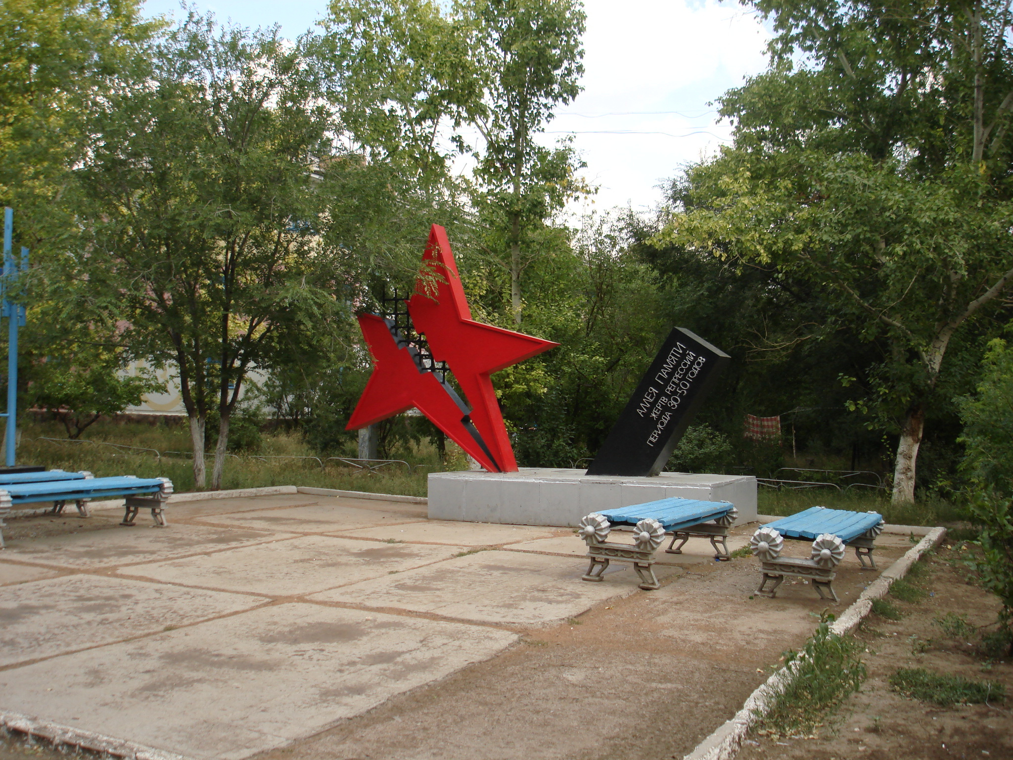 That is a monument for the victims of political repressions and the totalism, АЛЖИР “аkmolinsker camps for women of the betrayers of the nation”